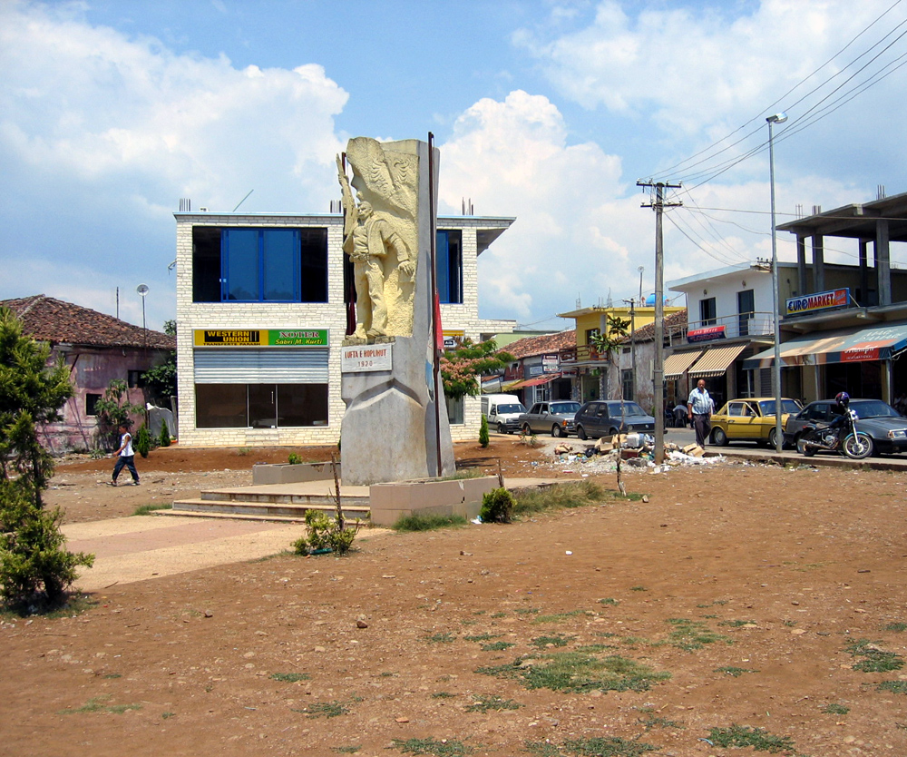 City center of Koplik in Northern Albania